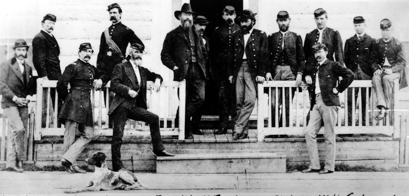 Lt. Colonel Eugene M. Baker and group of army officers at Fort Ellis, Montana Territory 1871. Mr.W.H. Jackson the veteran photographer who took this photograph writes in 1928, "We, the Geological Survey, were at Fort Ellis again from September 1st to 5th on our return. On the first one of these occasions, I made several scenic views about the neighborhood at the suggestion of and in company with some of the officers, this one among them. Although the photograph bears the imprint of the Department of the Interior, U.S. Geological Survey of the Territories, Washington, D.C., no. 197, the negative has been lost or destroyed, no record of it being now obtainable at the Geological Survey; and this old print now has special historical interest. "Left to right: Frank C. Grugan, 1st Lt. 2nd Cavalry; Lewis Thompson, Capt. 2nd Cavalry; George H. Wright, 2nd Lt., 7th Infantry; Gustavus C. Doane, 2nd Lt. 2nd Cavalry; Lewis Cass Forsyth, Capt., acting Quartermaster, A.B. Campbell, Asst. Surgeon; Dr.R.M. Whitewood Contract Physician; Sam T. Hamilton, 1st Lt. 2nd Cavalry; Col. Eugene M. Baker in command of post Dec. 1, 1869 - Oct. 15, 1872; Edward Ball, Capt. 2nd Cavalry; Lovell H. Jerome, 2nd Lt. 2nd Cavalry (rear); George L. Tyler, Capt. 2nd Cavalry; Edward J. McClerand, 2nd Lt. 2nd Cavalry; Charles B. Schofield, 2nd Lt., 2nd Cavalry.